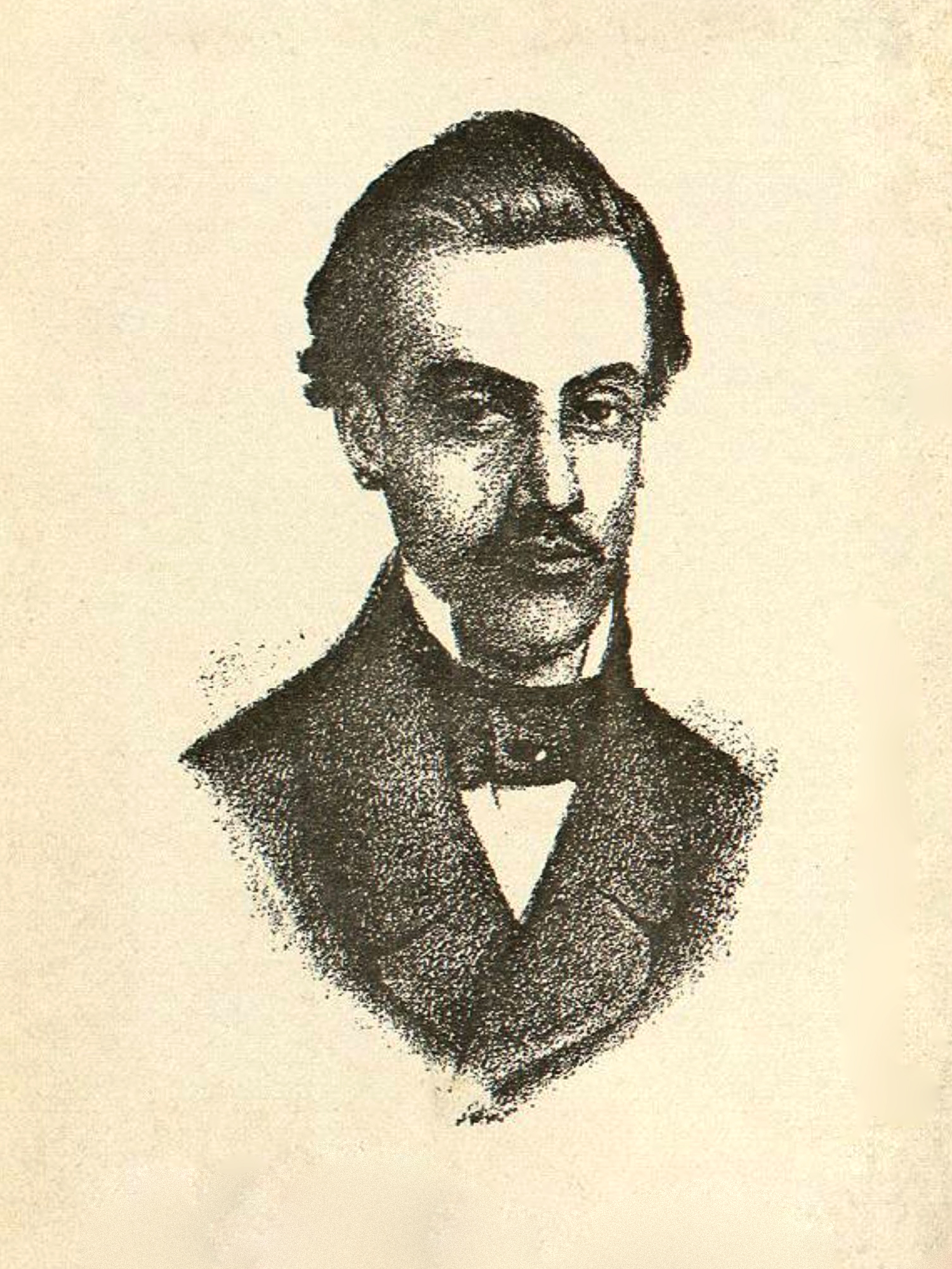 Juan Diaz Covarrubias (1837-1859) novelist, poet and Mexican journalist.